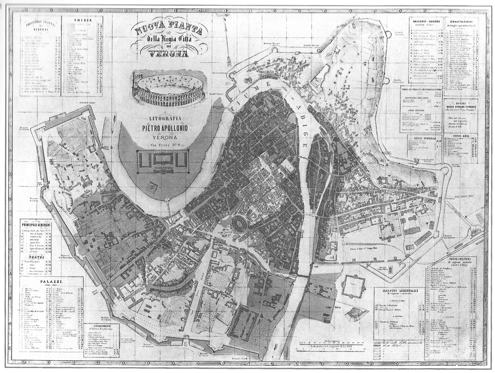 Verona's (Italy) historical map after a fllod in 1882. The map illustrate the part of the city where water arrived